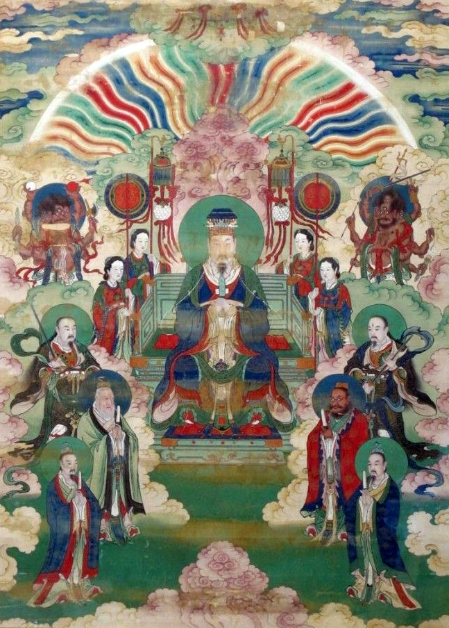 Chinese painting of Portraits of Jade Emperor and the Heavenly Kings. Ink and color on silk